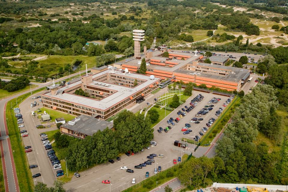 NATO complex in The Hague, the Netherlands